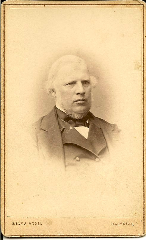 Swedish politician from late nineteenth century